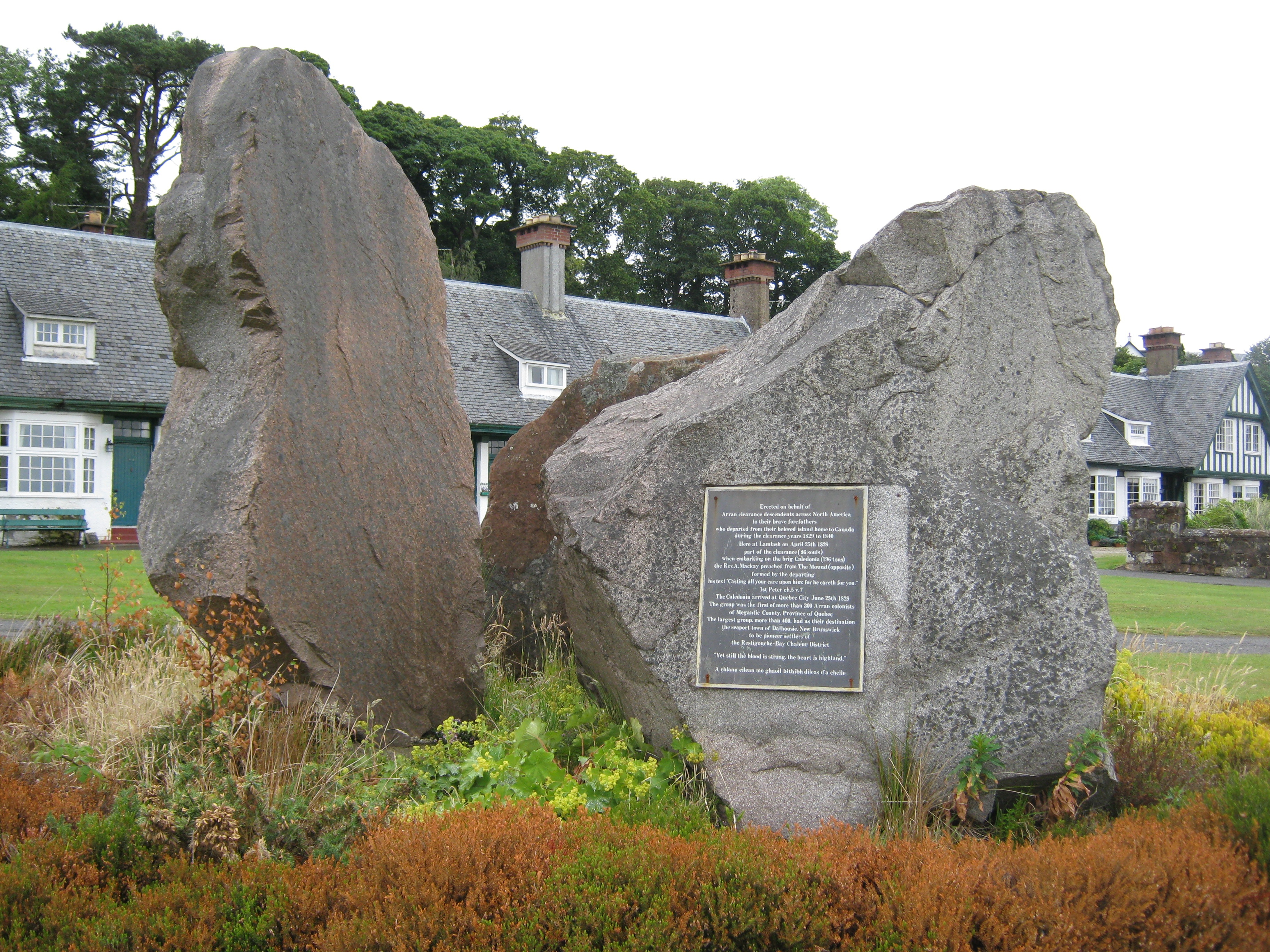 Lamlash, Isle of Arran. Memorial to the Highland Clearances.